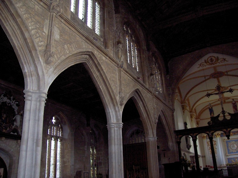 Author: K. Marriott. An informative view of the church from the medieval nave towards the out of place Georgian chancel.